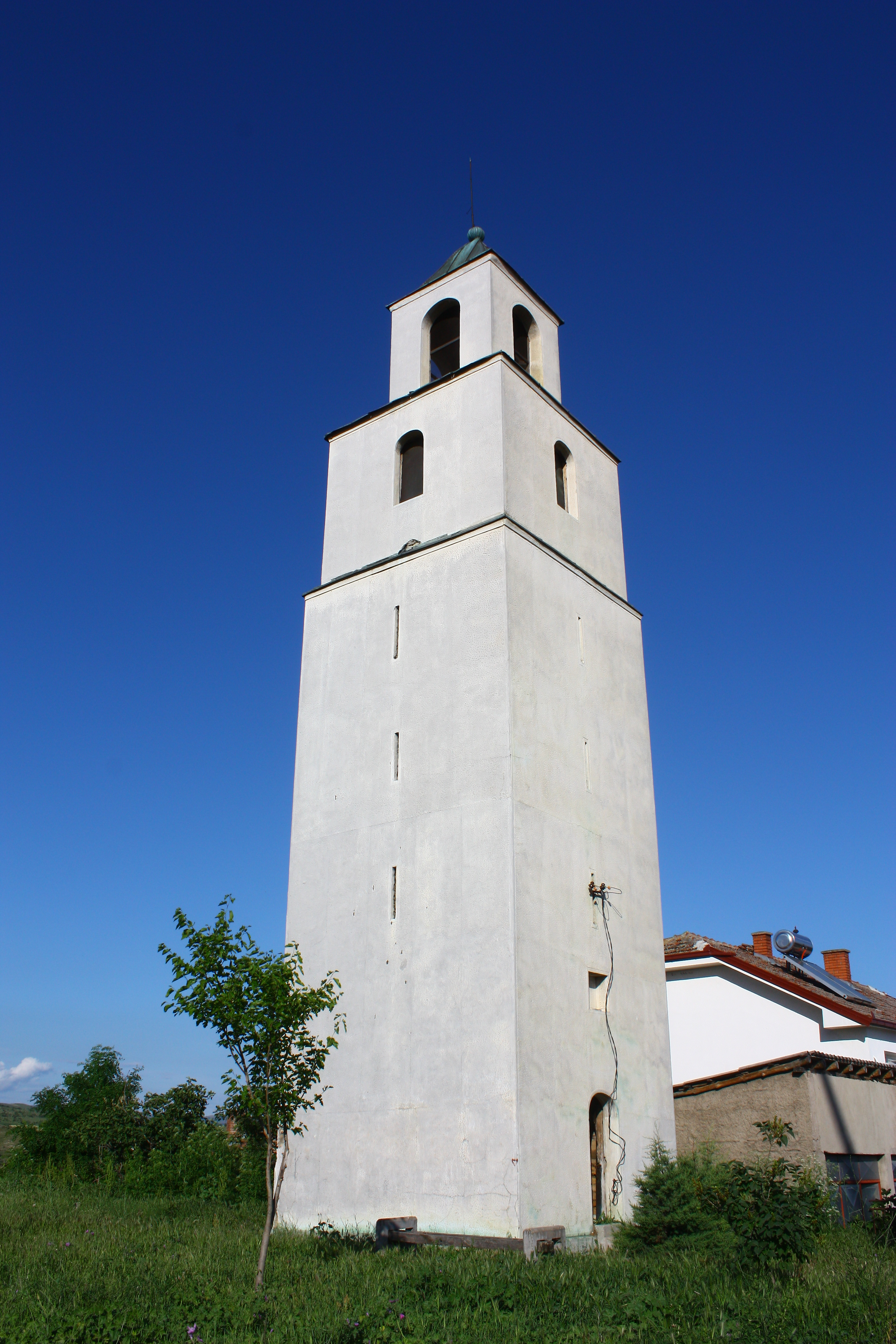 St. Nicholas Church in Sveti Nikole, Macedonia This image is uploaded as part of the picture contest Wiki Loves Cultural Heritage in Macedonia 2013. English | македонски | +/−